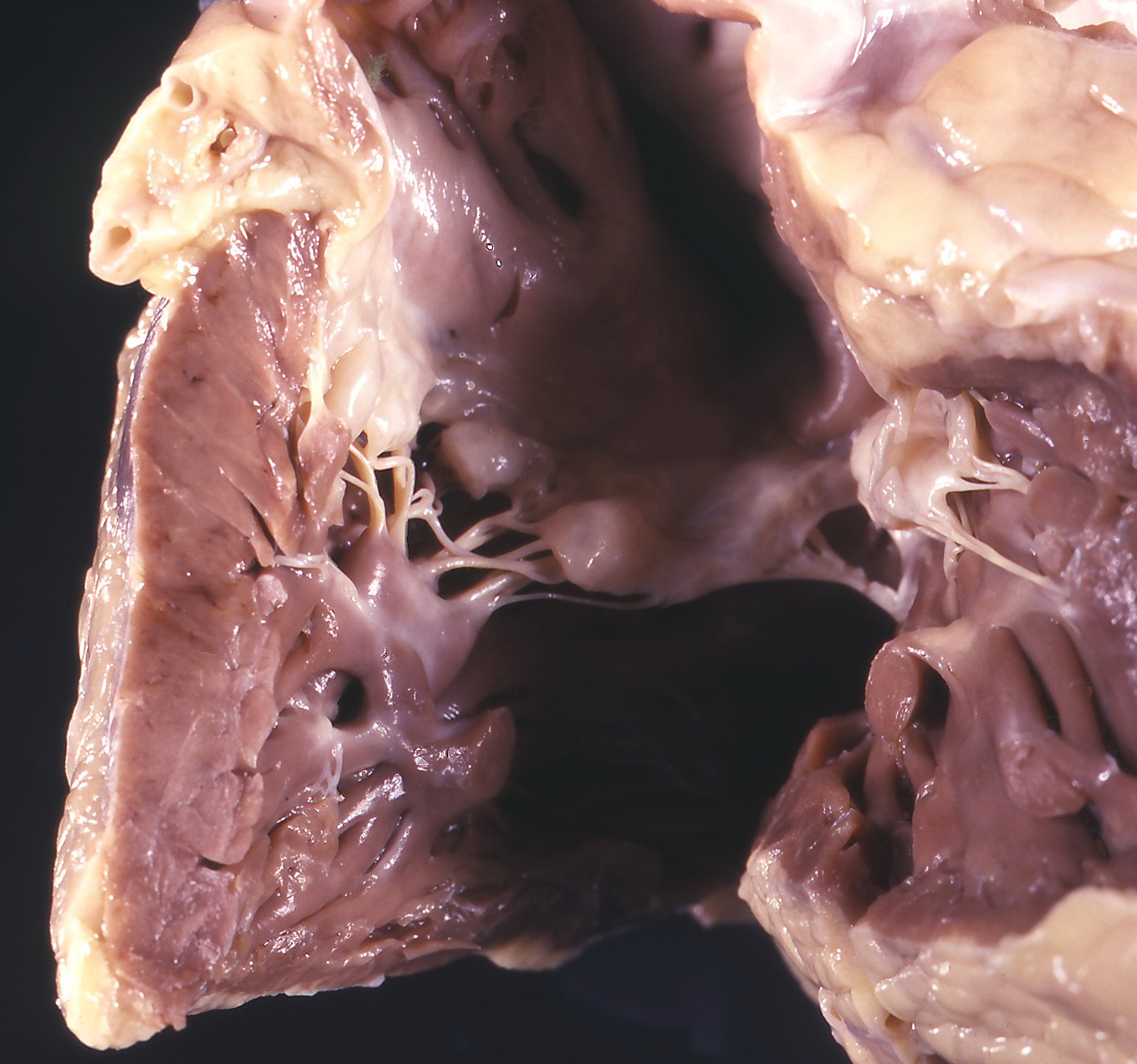 Heart - cor pulmonale- right ventricular hypertrophy